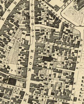 Crop of Samuel Bradford's 1751 map of Birmingham, England, showing the Moor Street Theatre between Moor Street and Park Street.